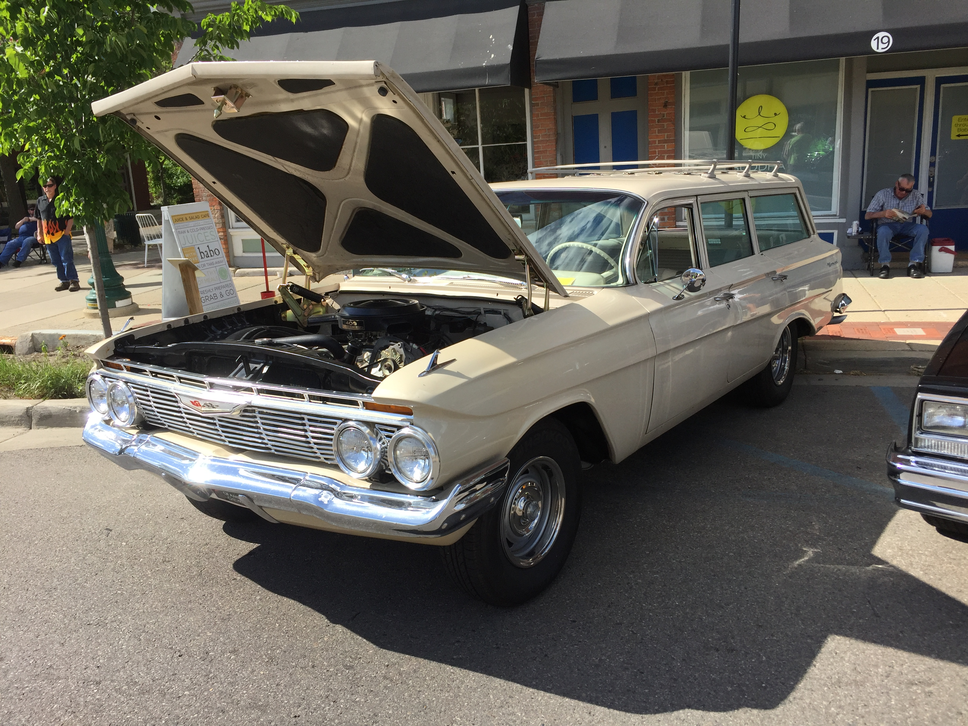 Depot Town weekly summer cruise, Ypsilanti, Michigan